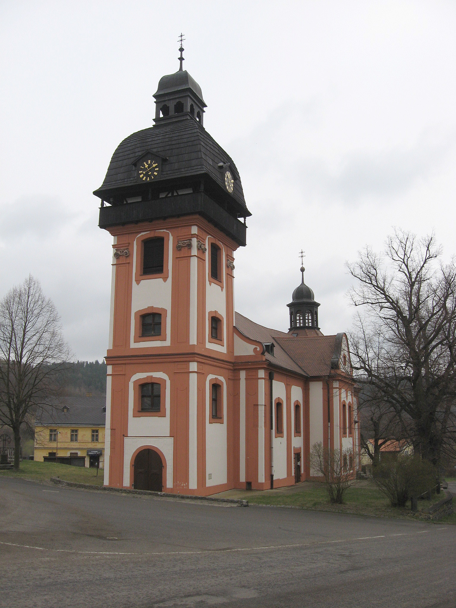 Church of the Nativity of Saint John the Baptist in Valeč, (Karlovy Vary District, Czech Republic)